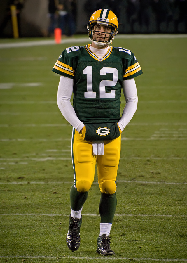 Minnesota Vikings vs. Green Bay Packers at Lambeau Field on Monday Night, November 14, 2011. Photo by Mike Morbeck.